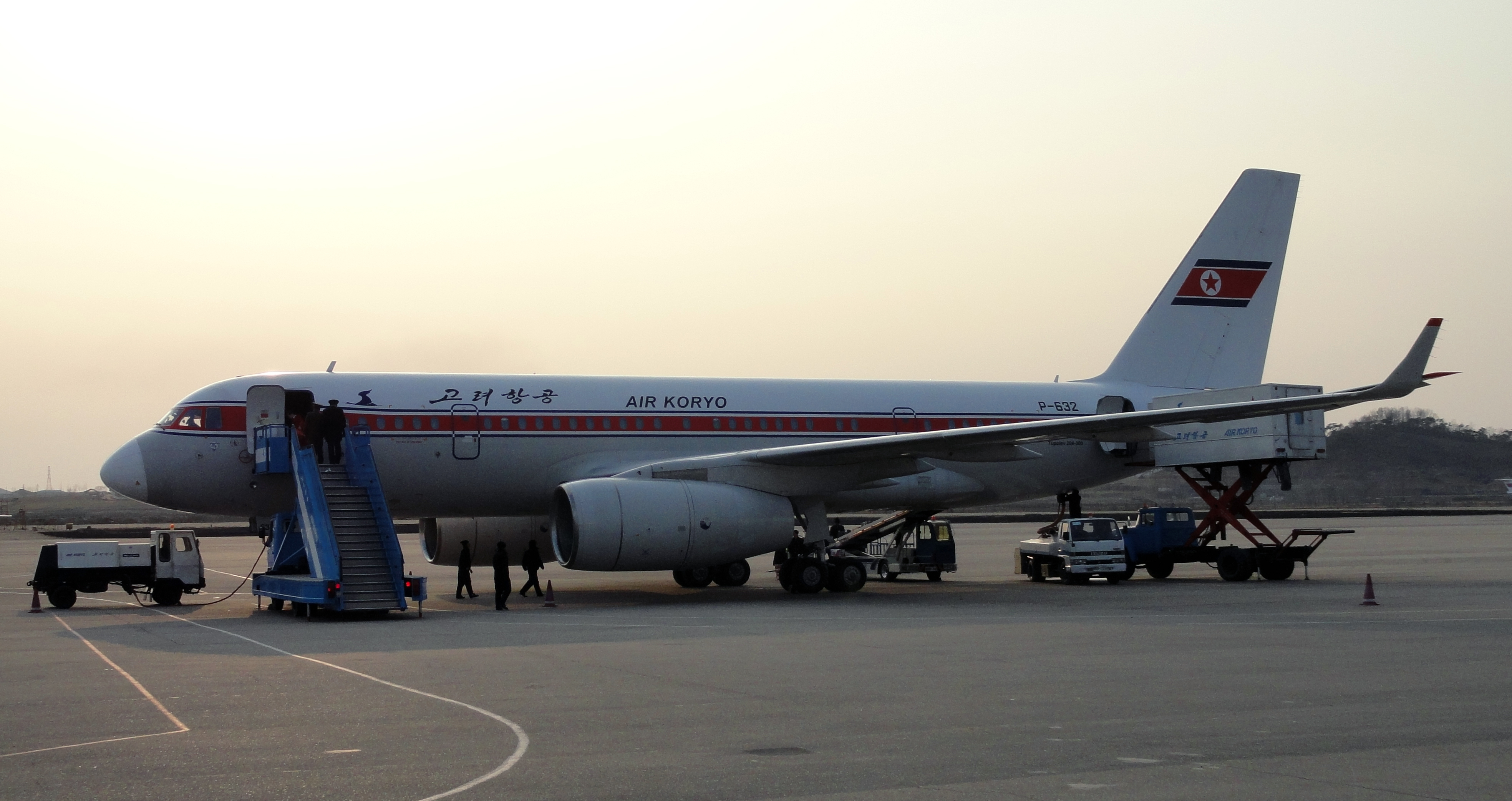 Air Koryo Jet at Pyongyang Airport.